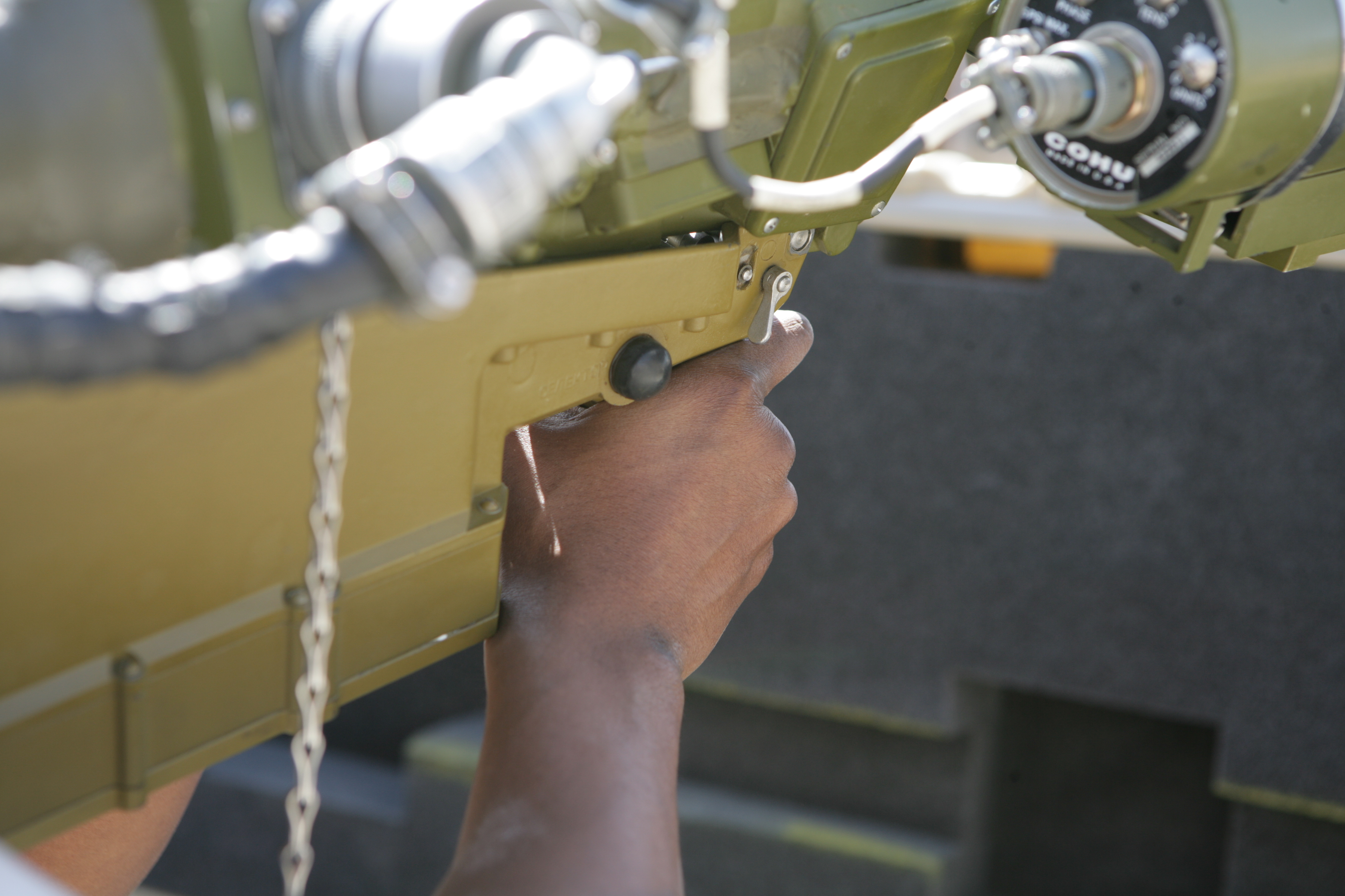 A U.S. Marine aims a man-portable air-defense system simulator at Marine Corps Air Station Yuma, Ariz., April 3, 2010.